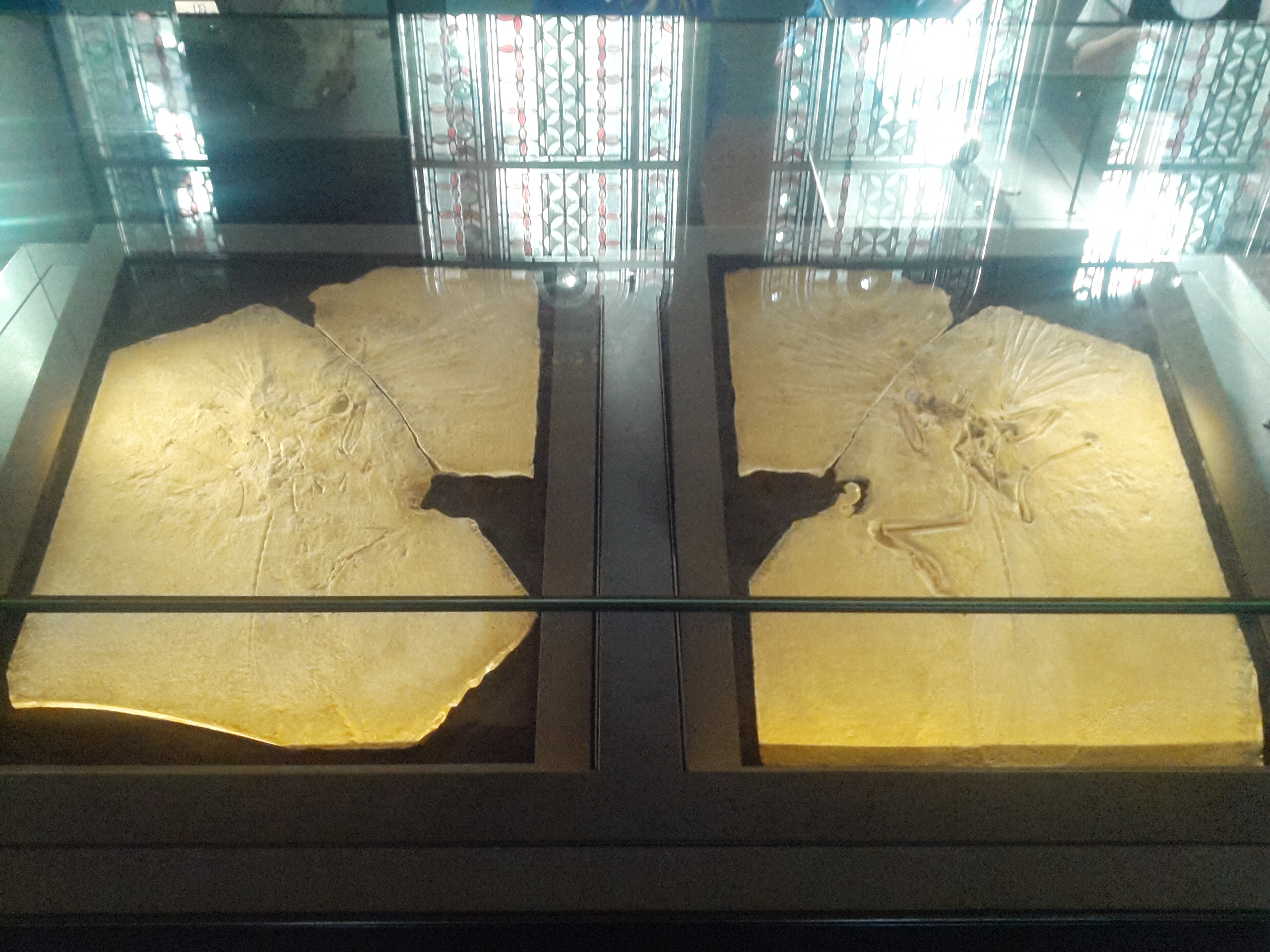 Archaeopteryx fossil, Treasures Exhibition, Natural History Museum